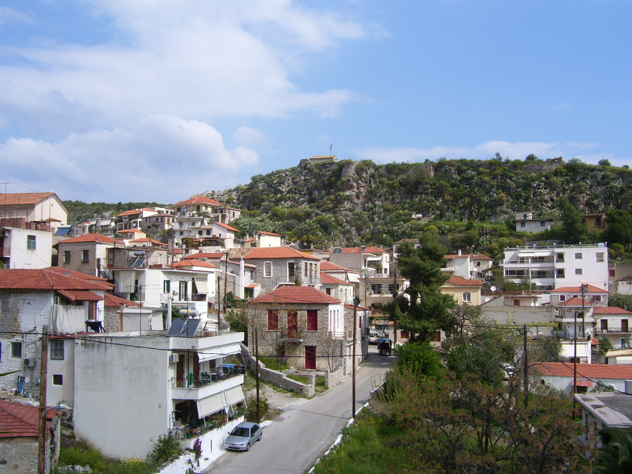 Nea Epidavros village, Argolida. On the hill there are the few ruins of Piad's castle.